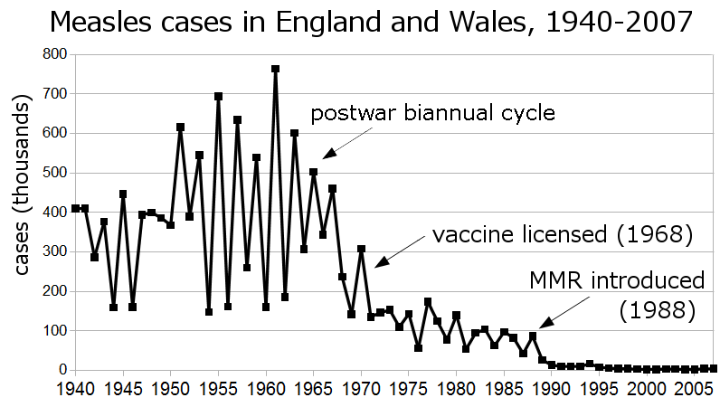 Derived from File:Measles incidence England&Wales 1940-2007.png